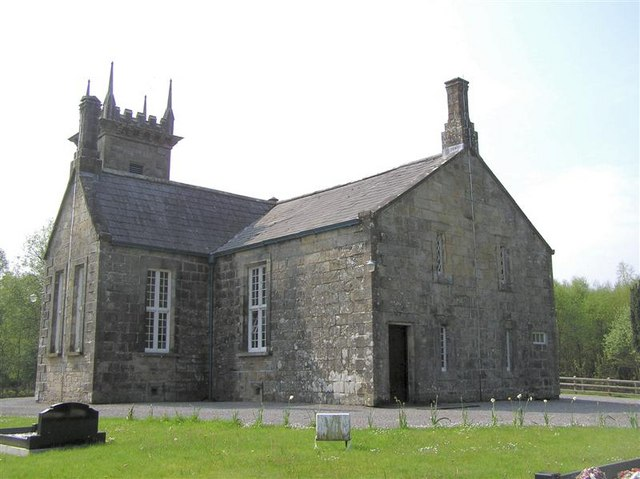 St Mary's Church of Ireland, Errigle. It is in the parish of Portclare, Augher